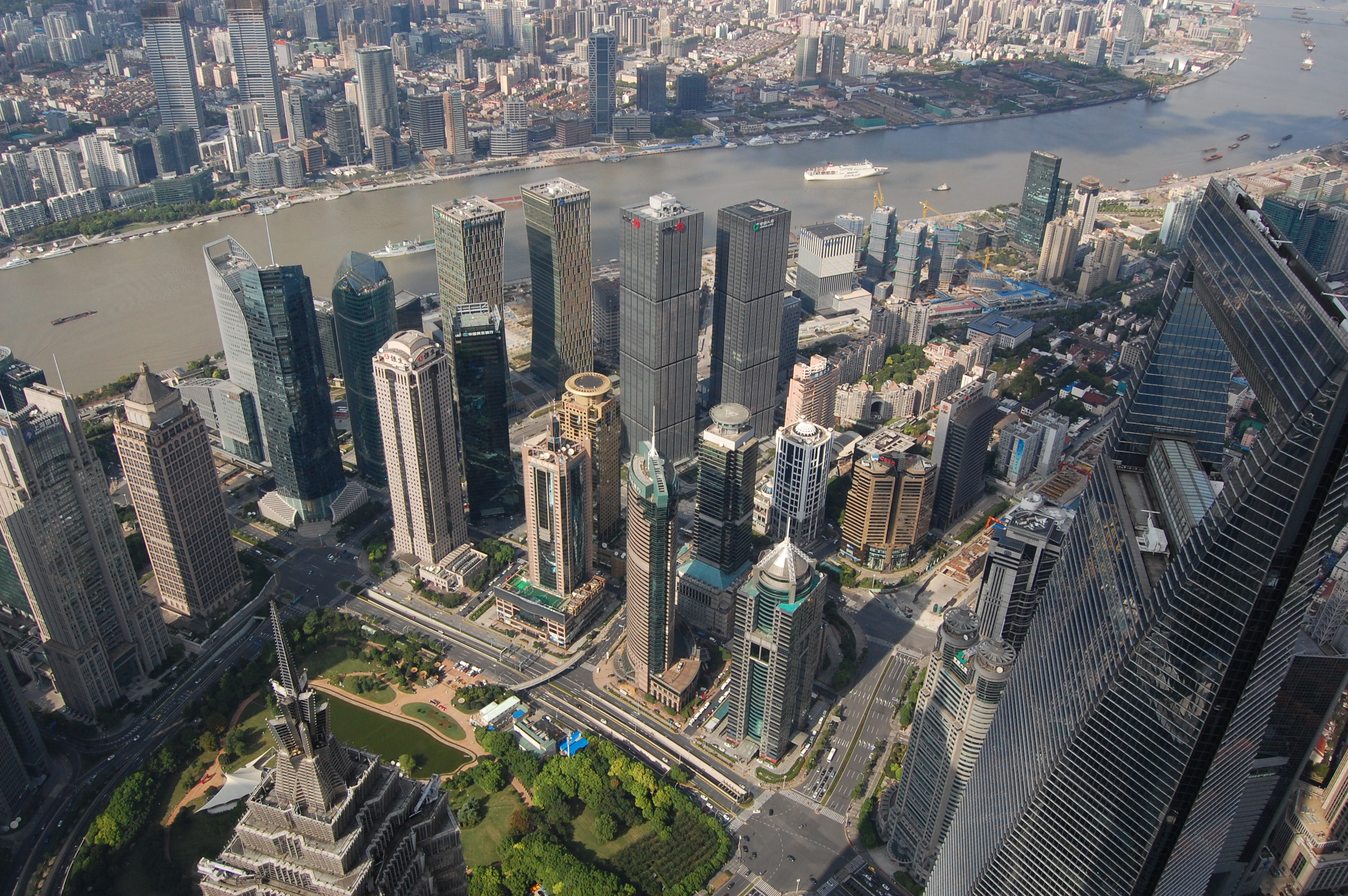 View north from 118F observation deck. Note: photo's title contains an error – the river in the photo is the Huangpu River, not the Yangtze.